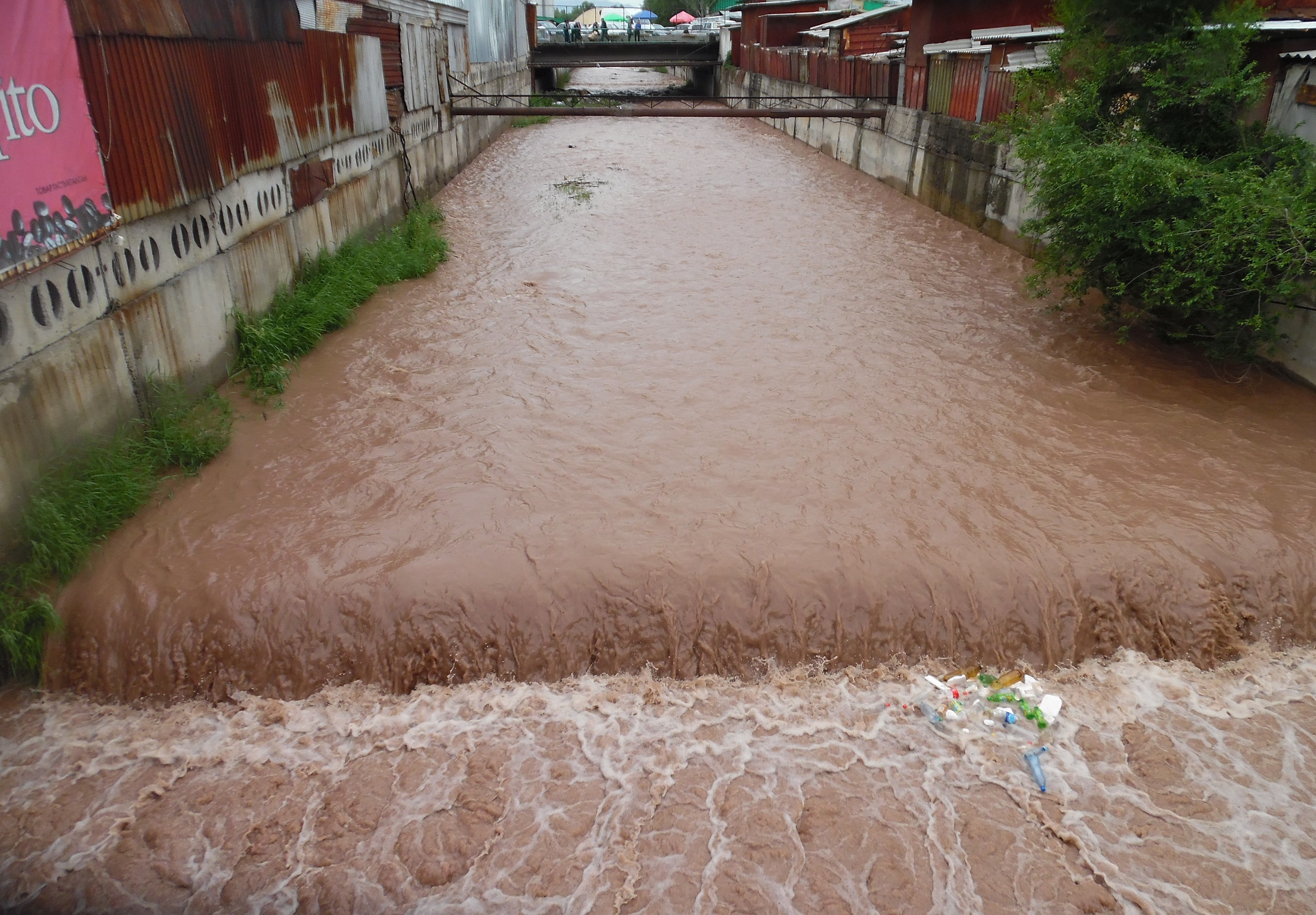 Ala Archa river in Bishkek near Osh Market after spring rains